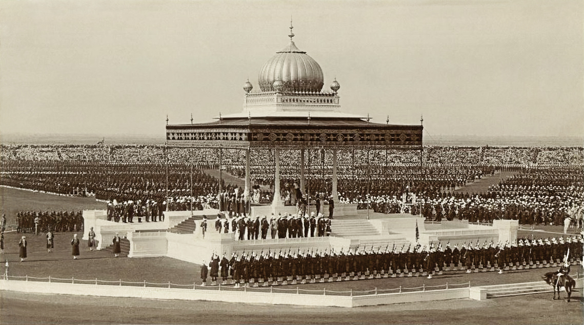 The picture shows the Delhi Durbar (translated roughly: "Royal court convention in Delhi") of the British monarchs King George V and Queen Mary.